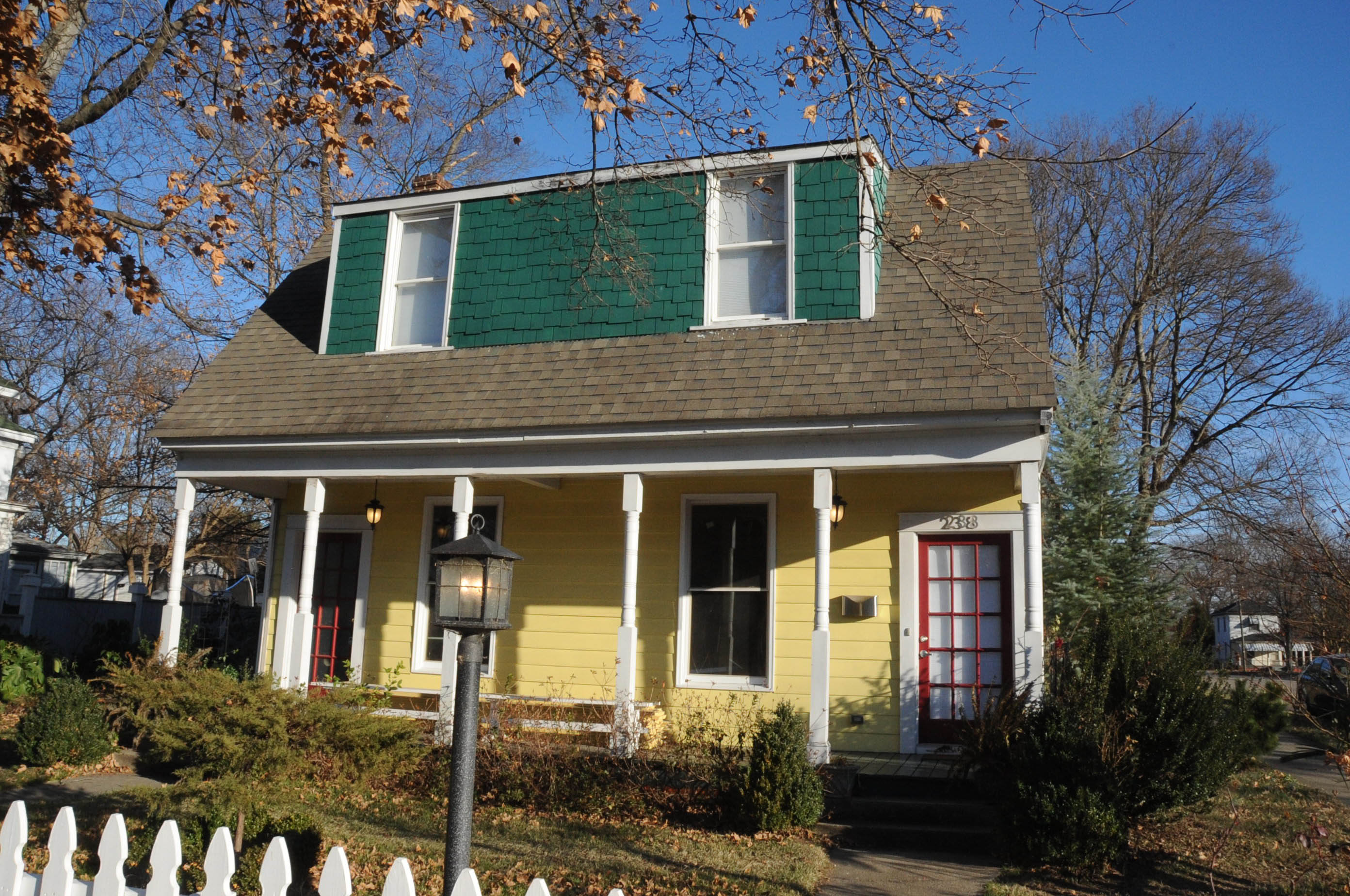 TURTLEBACK HOUSE BUILT IN 1894 – ARCHITECT WAS STANFORD WHITE. ONE OF ONLY 6 SUCH HOUSE DESIGNED BY WHITE